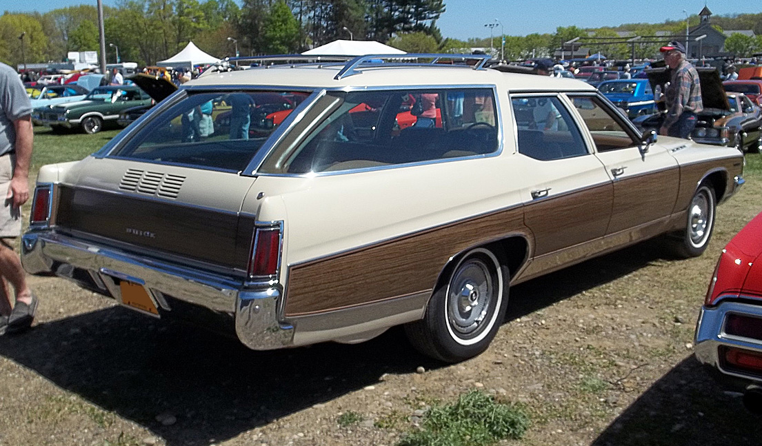 1971 Buick Estate Wagon (Electra), spotted on the show field at the Rhinebeck, NY car show.